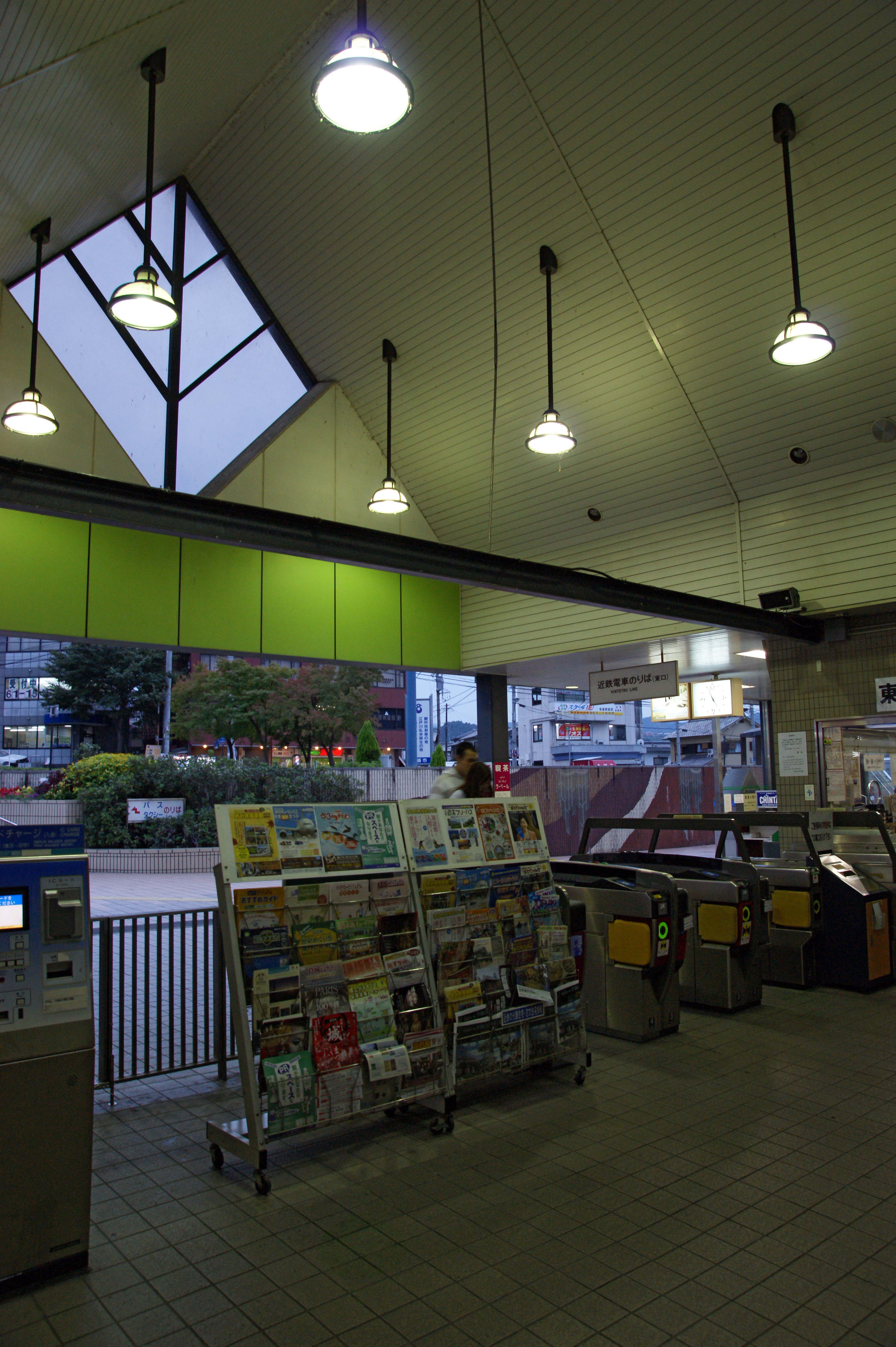 Nabari Station, Nabari, Mie prefecture, Japan